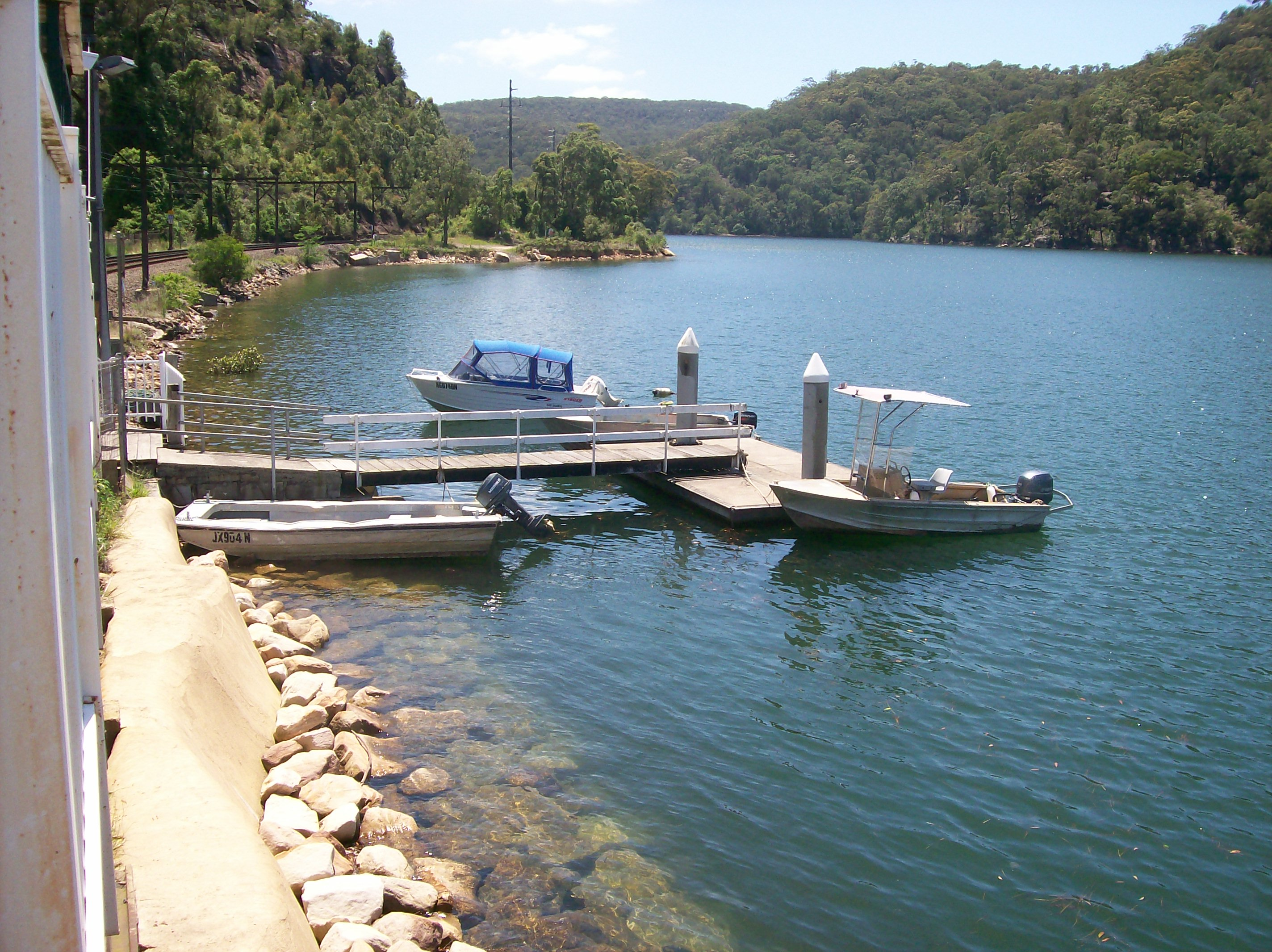 Wondabyne station pontoon